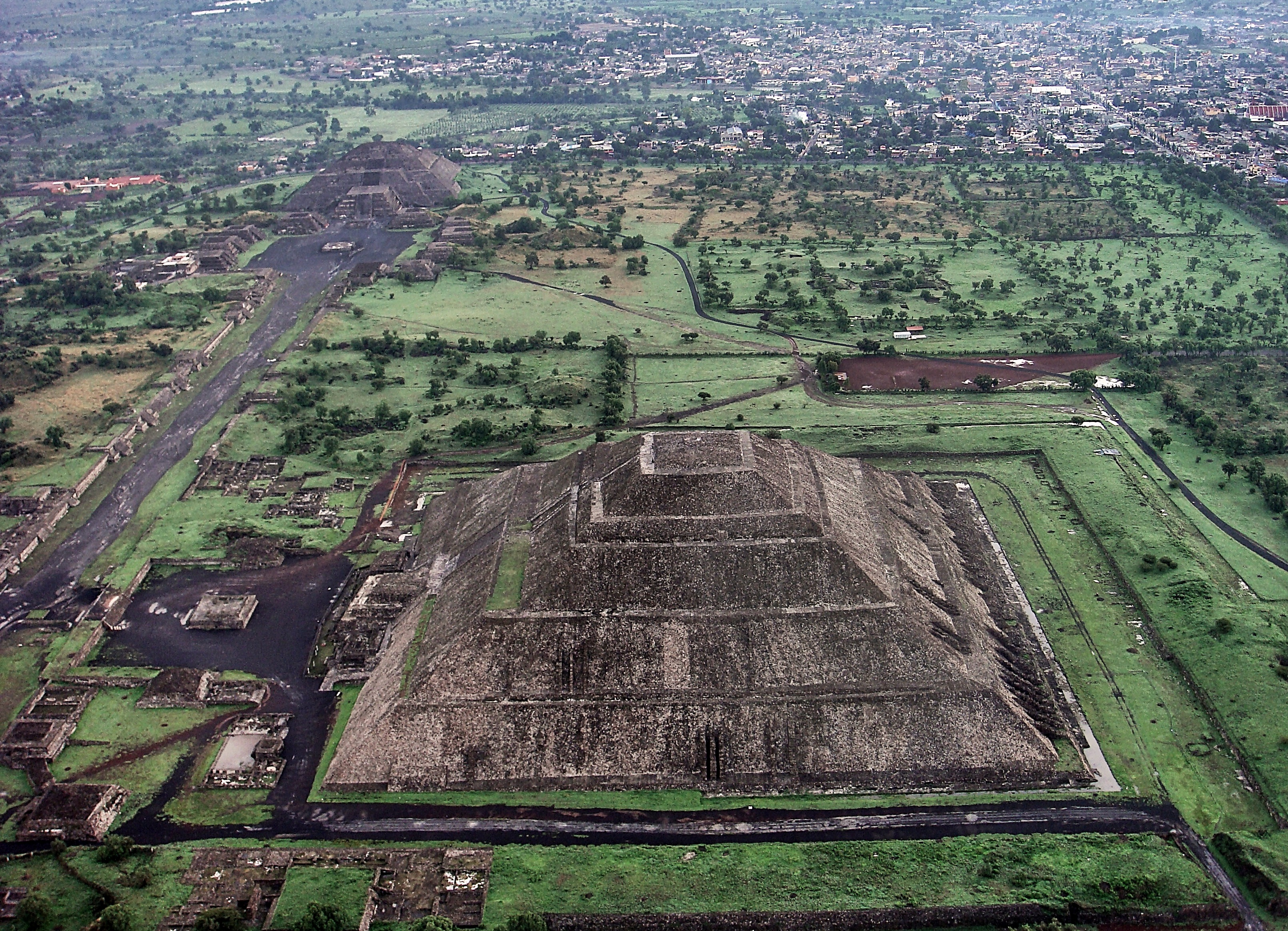 The Pyramid of the Moon in Teotihuacan, México